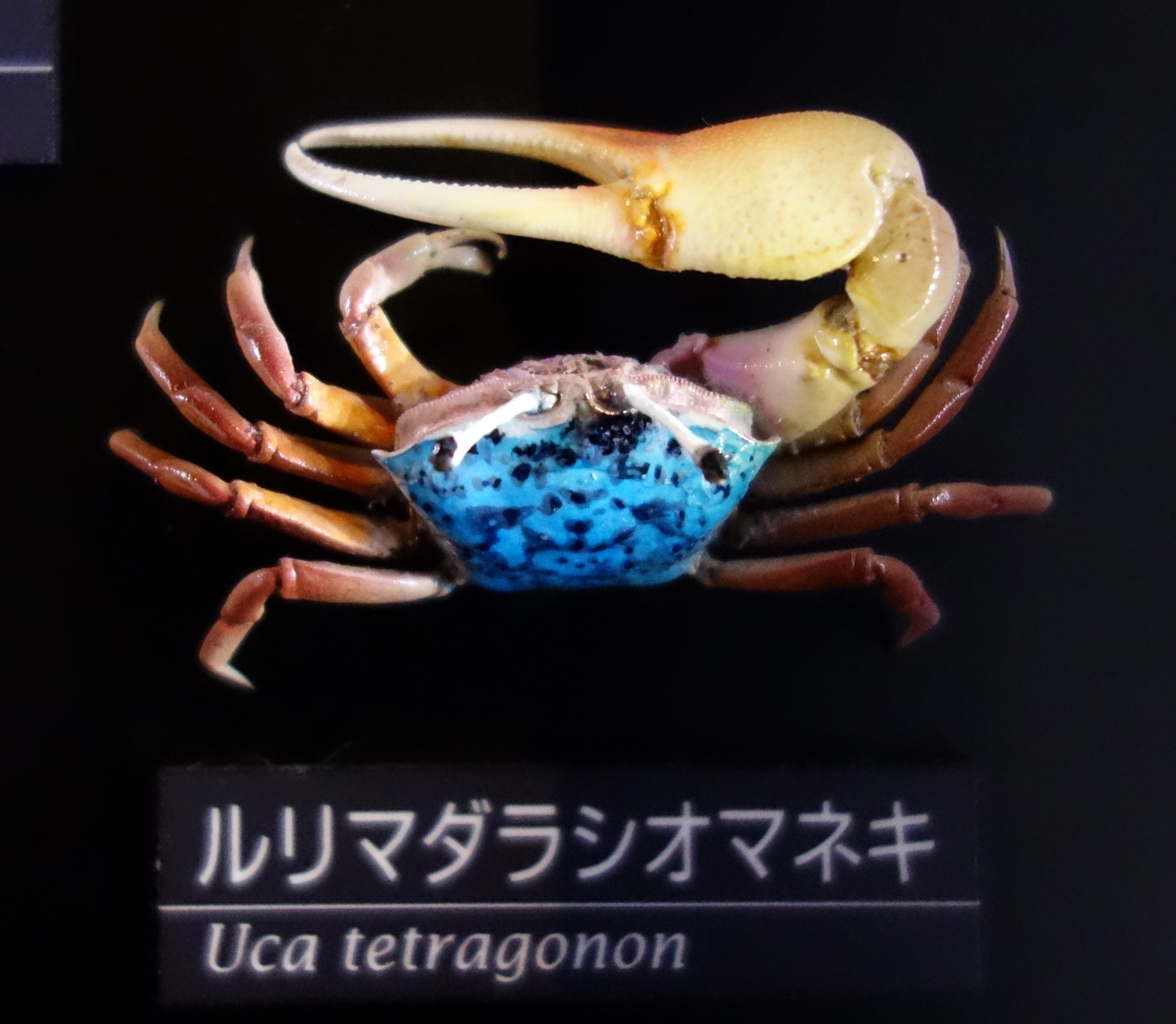 Exhibit in the National Museum of Nature and Science, Tokyo, Japan.